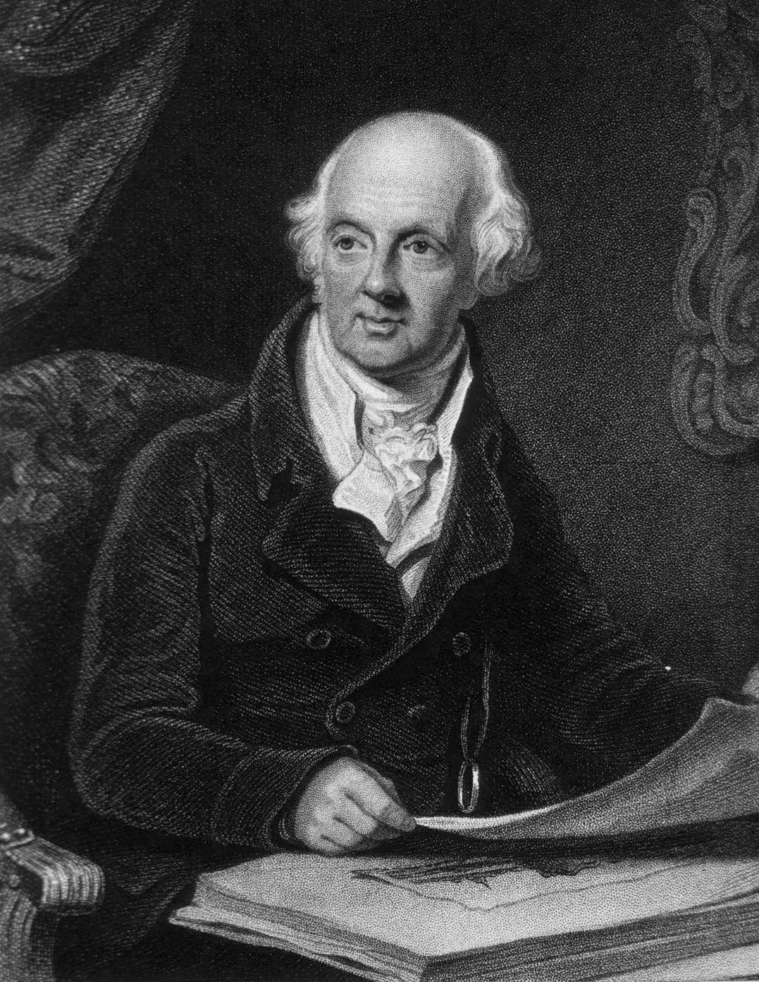 Sir Abraham Hume, 2nd Baronet (20 February 1749 – 24 March 1838)